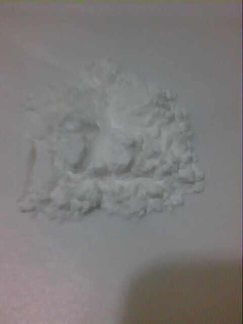 Well-preserved lanthanum oxide with high purity.